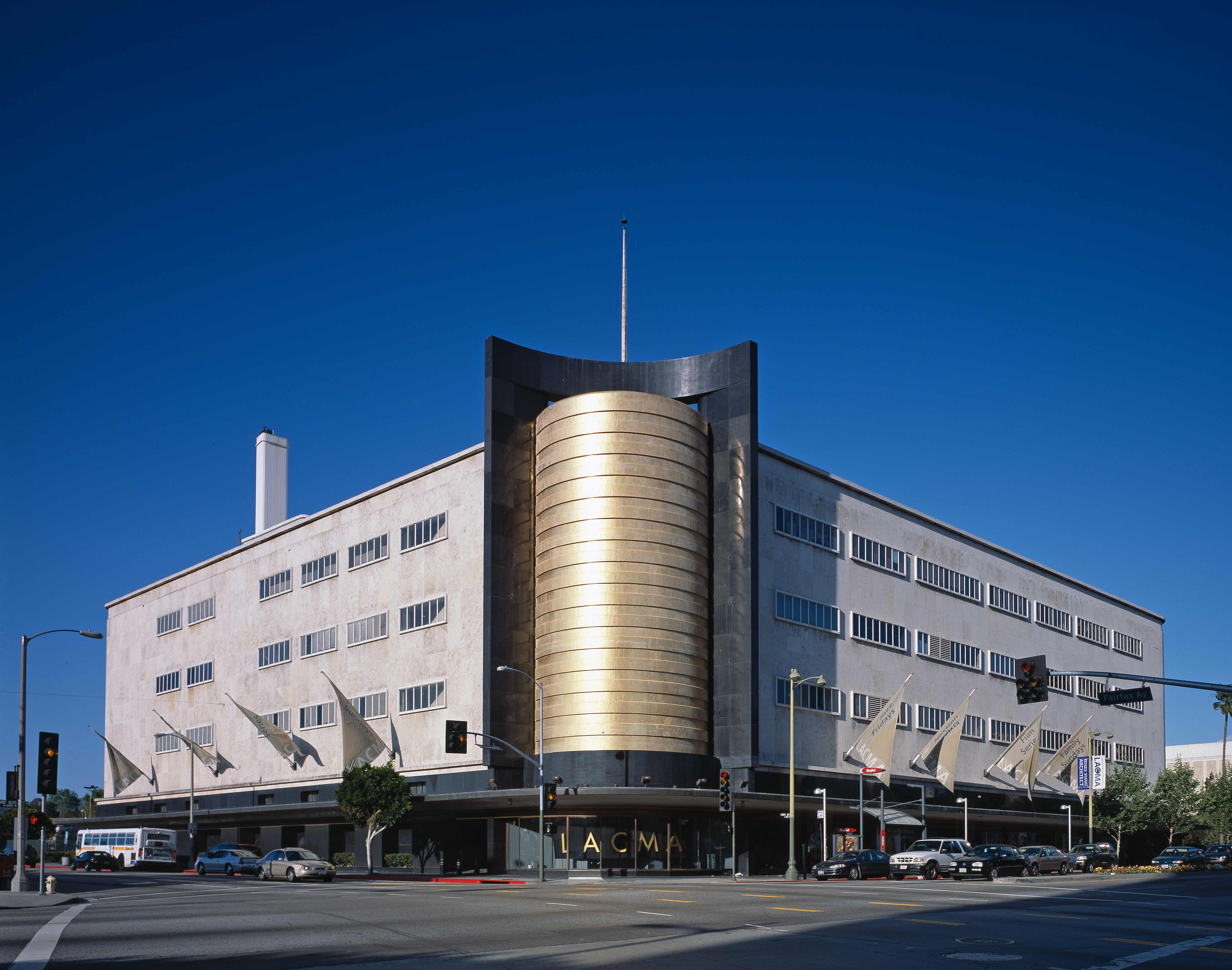 Former 1930s May Company department store — Art Deco and Streamline Moderne architecture styles. Formerly part of the Los Angeles County Museum of Art campus. Future home of The Academy Museum of Motion Pictures, opening 2019. Located on Wilshire Boulevard, at the western end of the Miracle Mile, Los Angeles. Part of photograph series of buildings in Los Angeles, California and the surrounding area - by Carol Highsmith.}